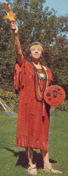 Zara as the chief of Indians